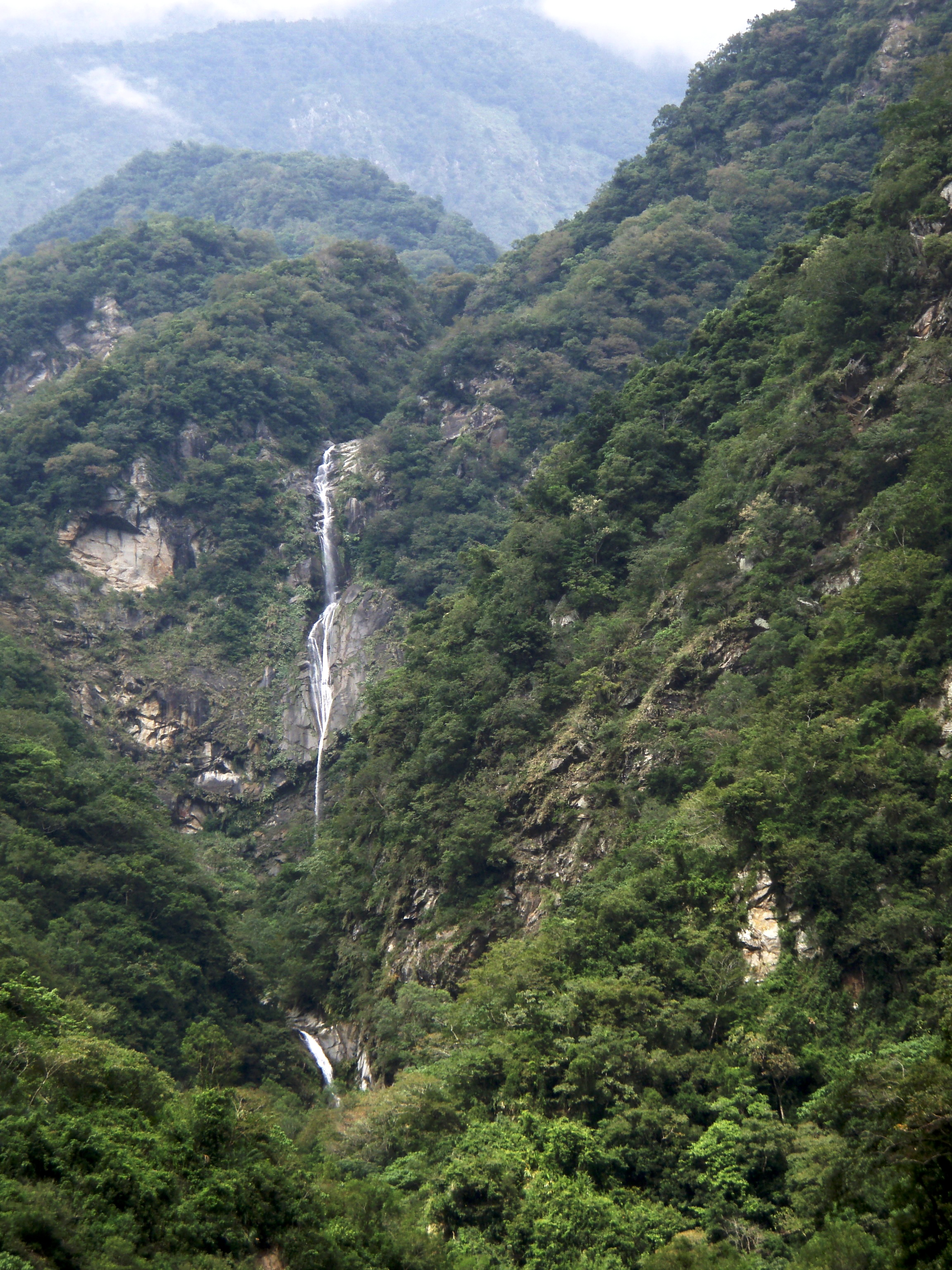 Showing Daoulas Waterfall,it also called Baiyang Waterfall.Spectacular view of the Taroko Gorge while biking on the Central Cross-Island Highway in Taiwan.